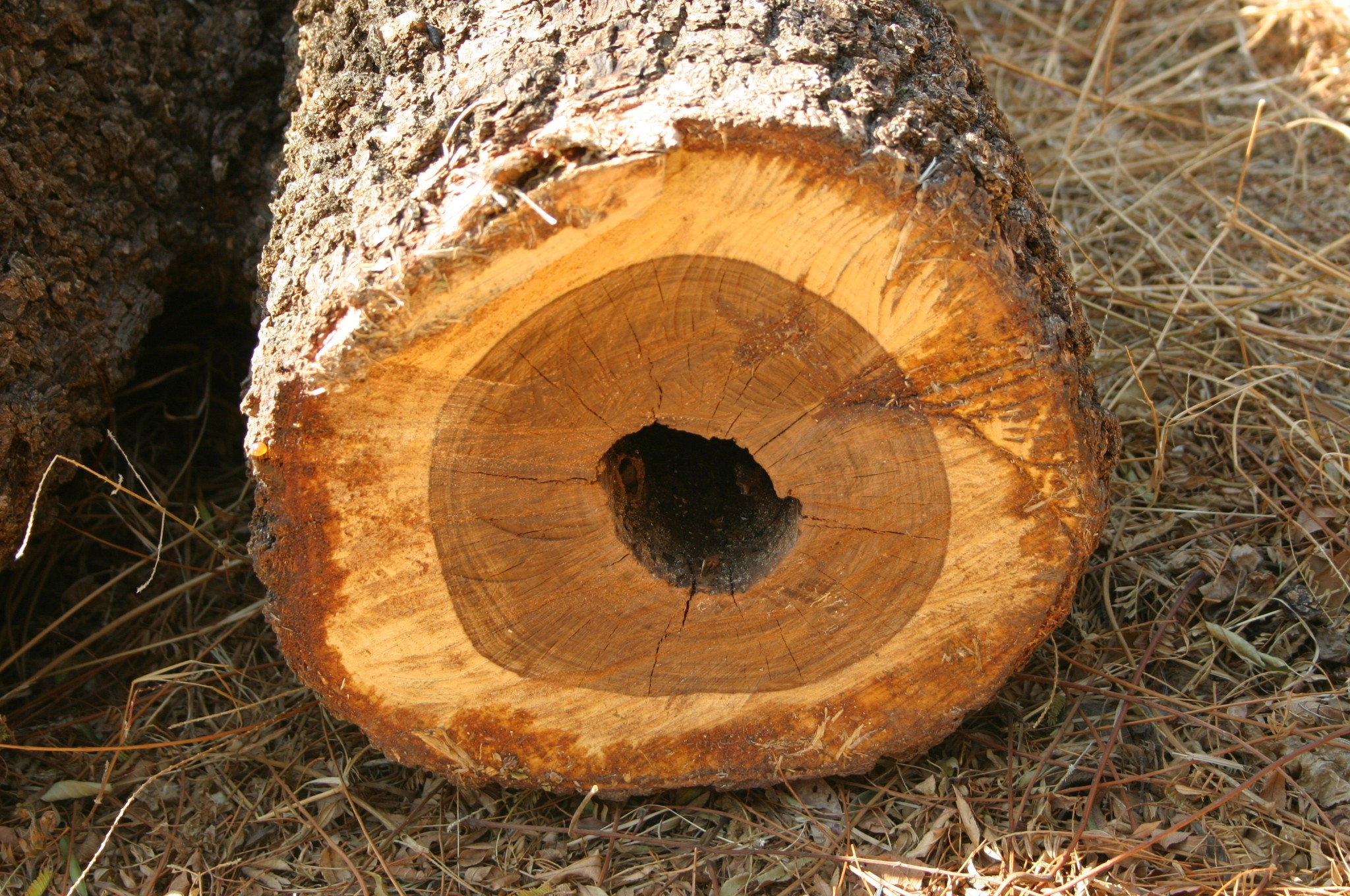 own image Paul venter 11:48, 31 July 2006 (UTC)